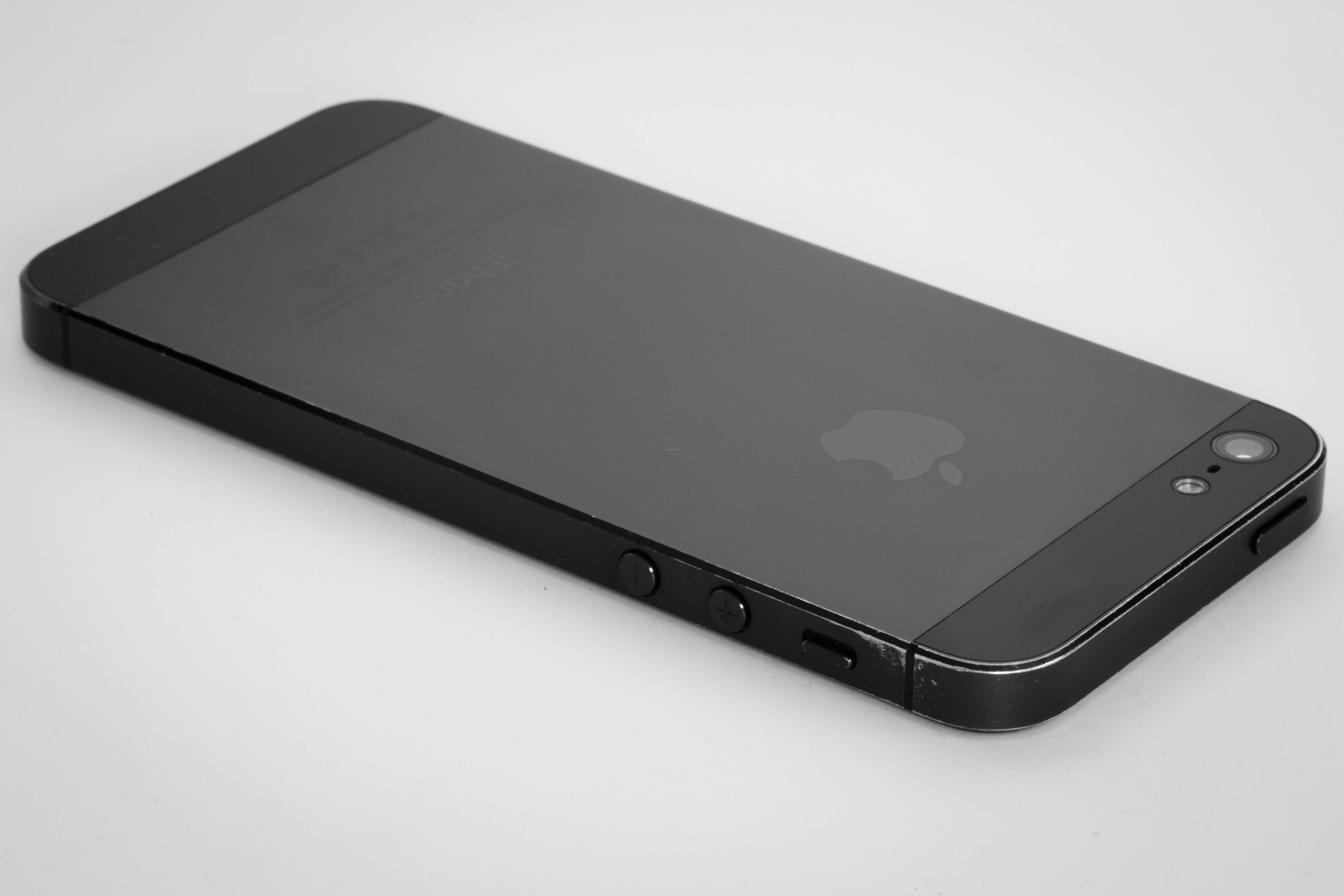 A view of the iPhone 5's paint scratching off under normal use.